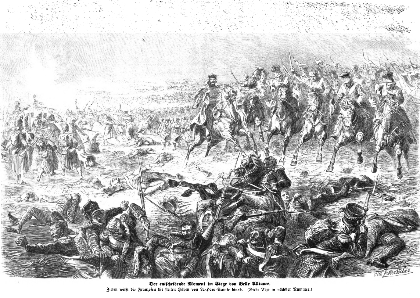 caption: "Der entscheidende Moment im Siege von Belle Alliance.Zieten wirft die Franzosen die steilen Höhen von La-Have-Sainte hinab. (Siehe Text in nächster Nummer.)"